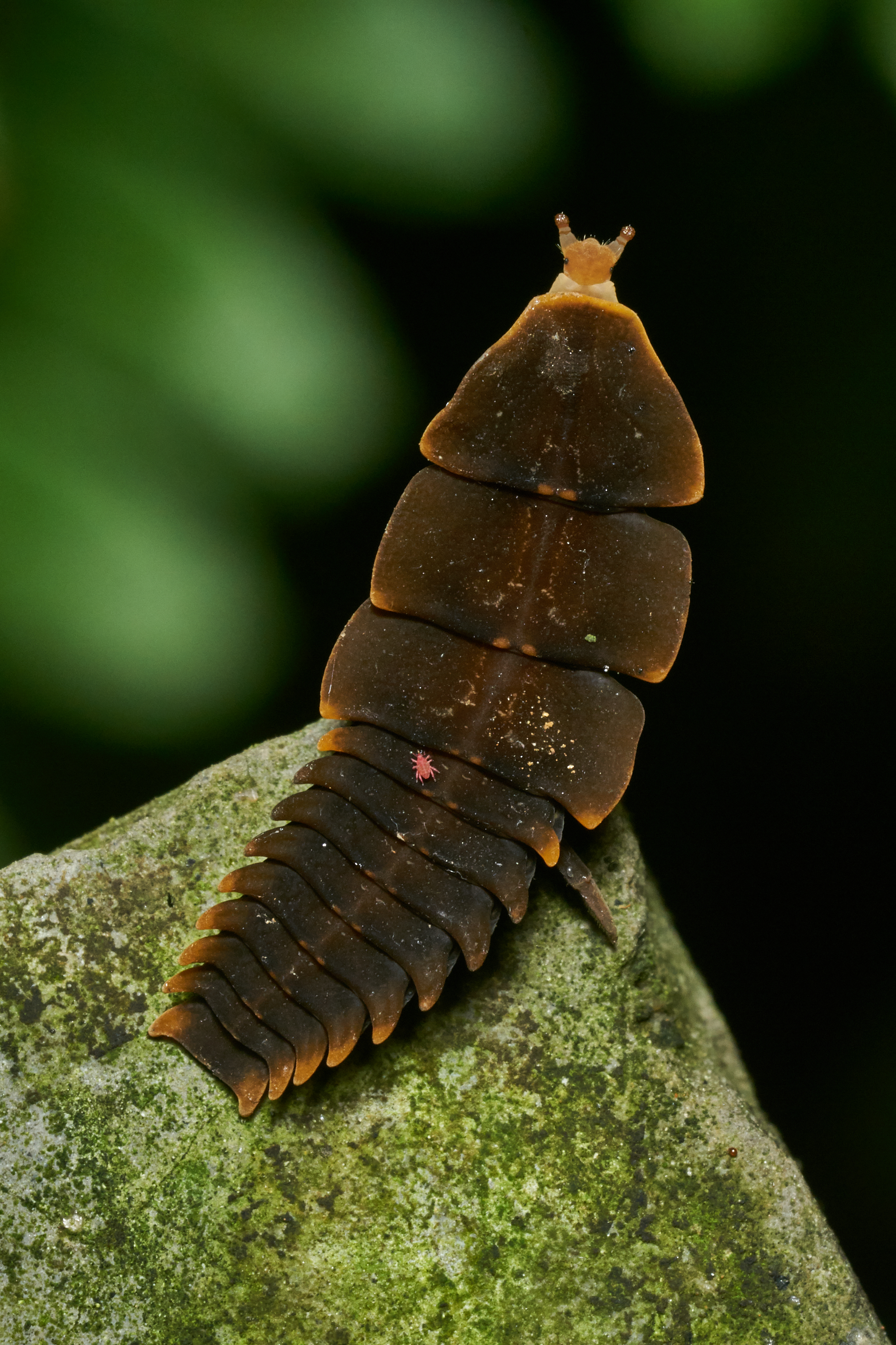 Lycidae with a mite. It is most likely a larva, but there's also a small chance it could be a larviform female.